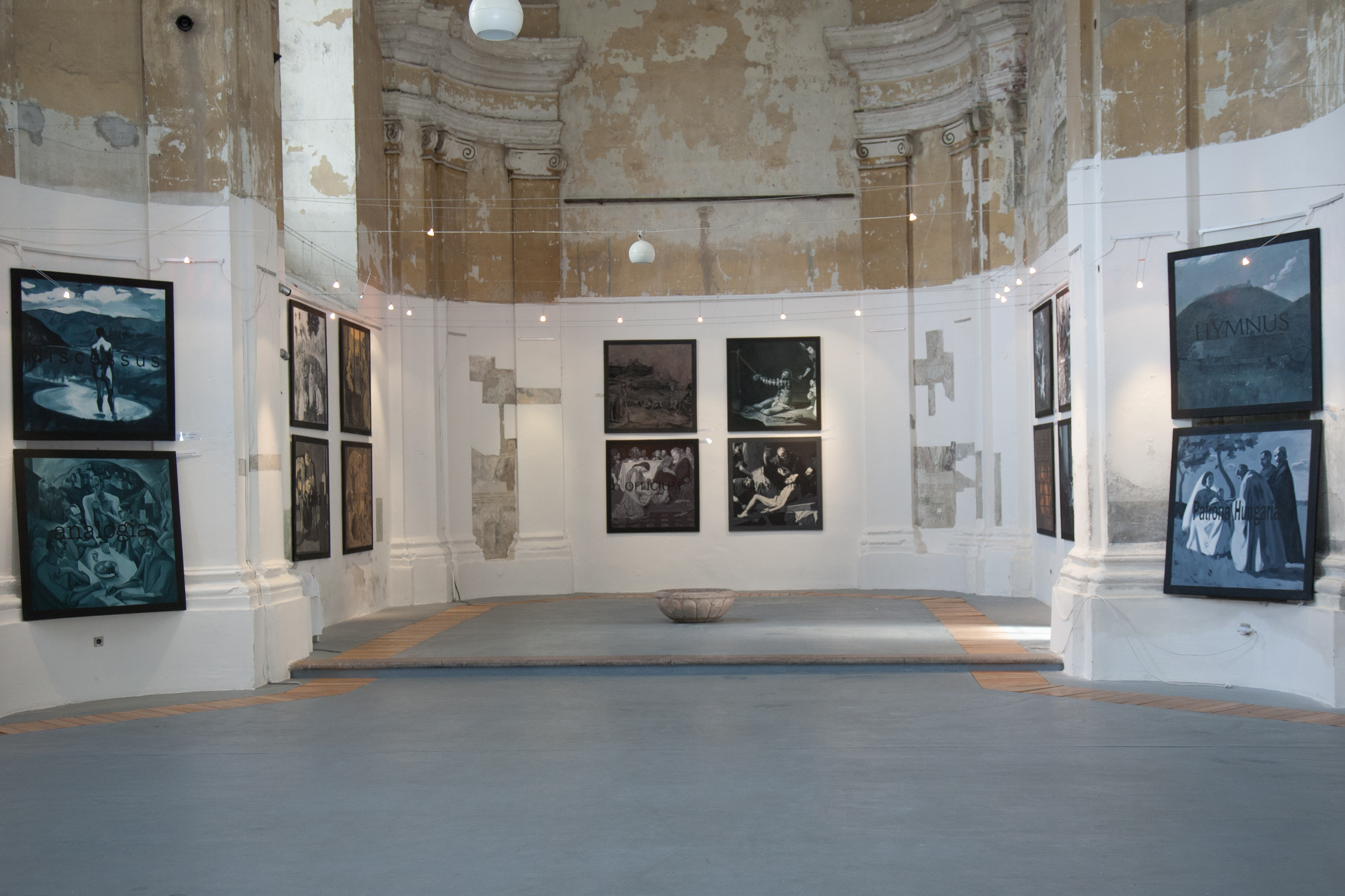 Exhibition in Révkomárom 2014